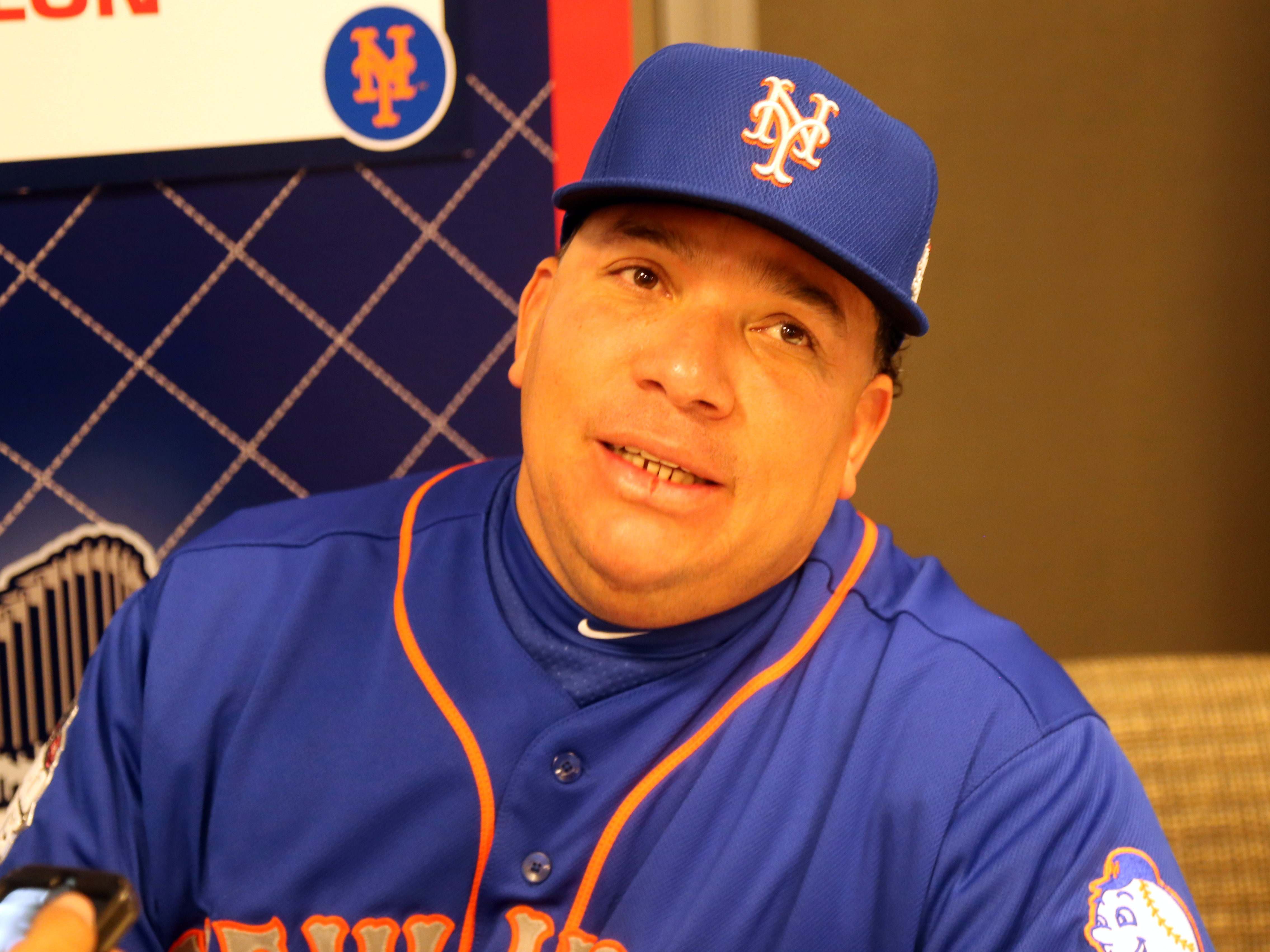 Bartolo Colon talks to reporters on #WSMediaDay.